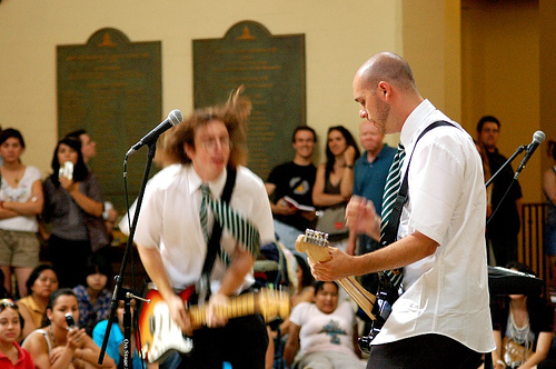 Original description: Photo by Gabriela Alaniz, who released her images into the Creative Commons domain in an email to me, with the condition she got credit. Caption from English Wikipedia article on the band: Draco and the Malfoys performing at the Los Angeles Library in July 2006.